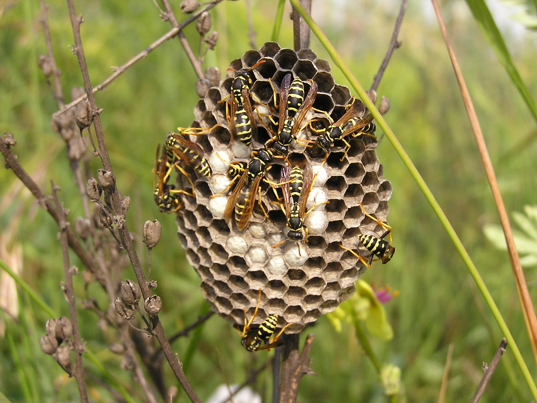 Vespiary of Polistes gallicus